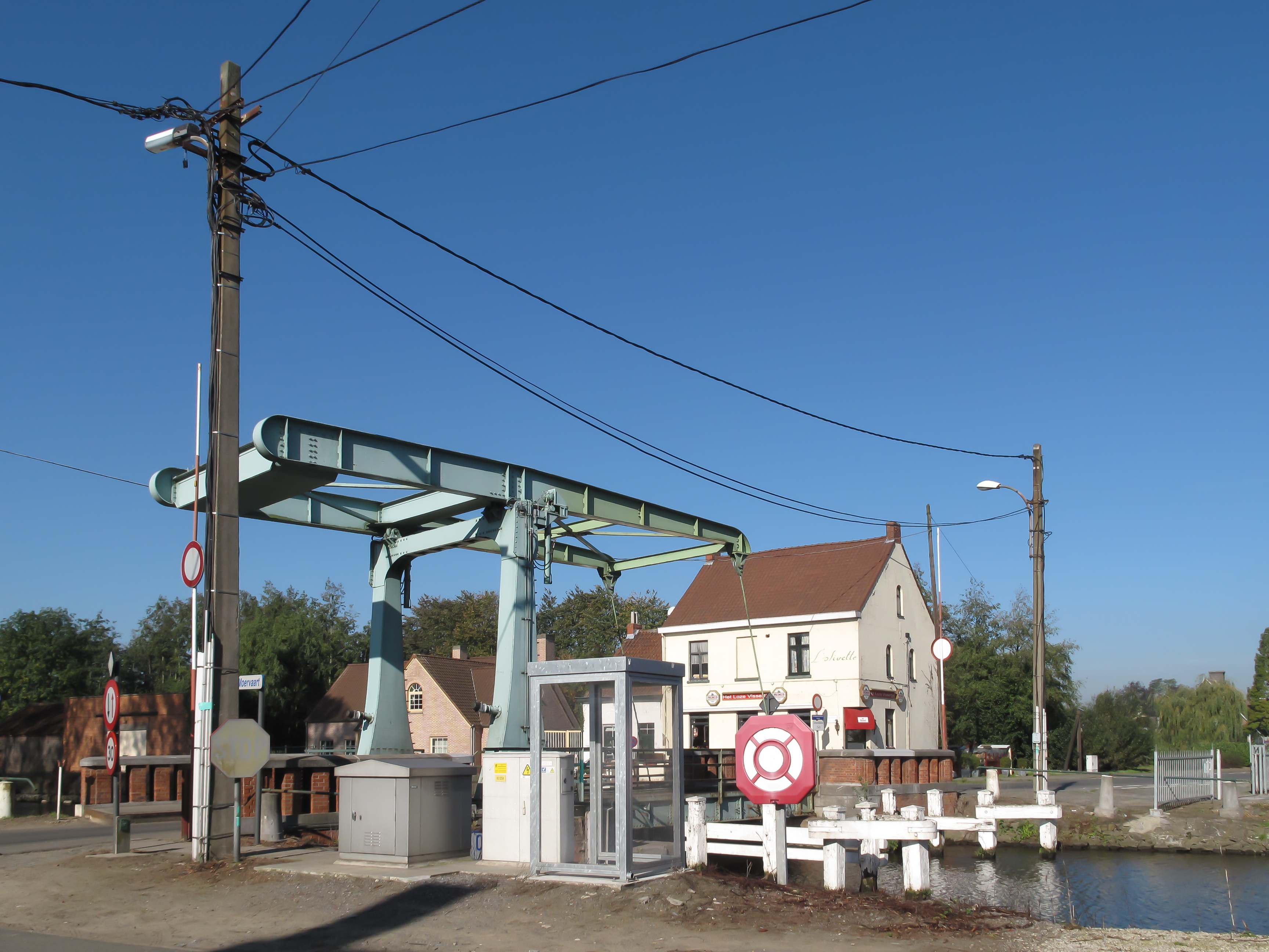 Wachtebeke, drawbridge: Overledebrug